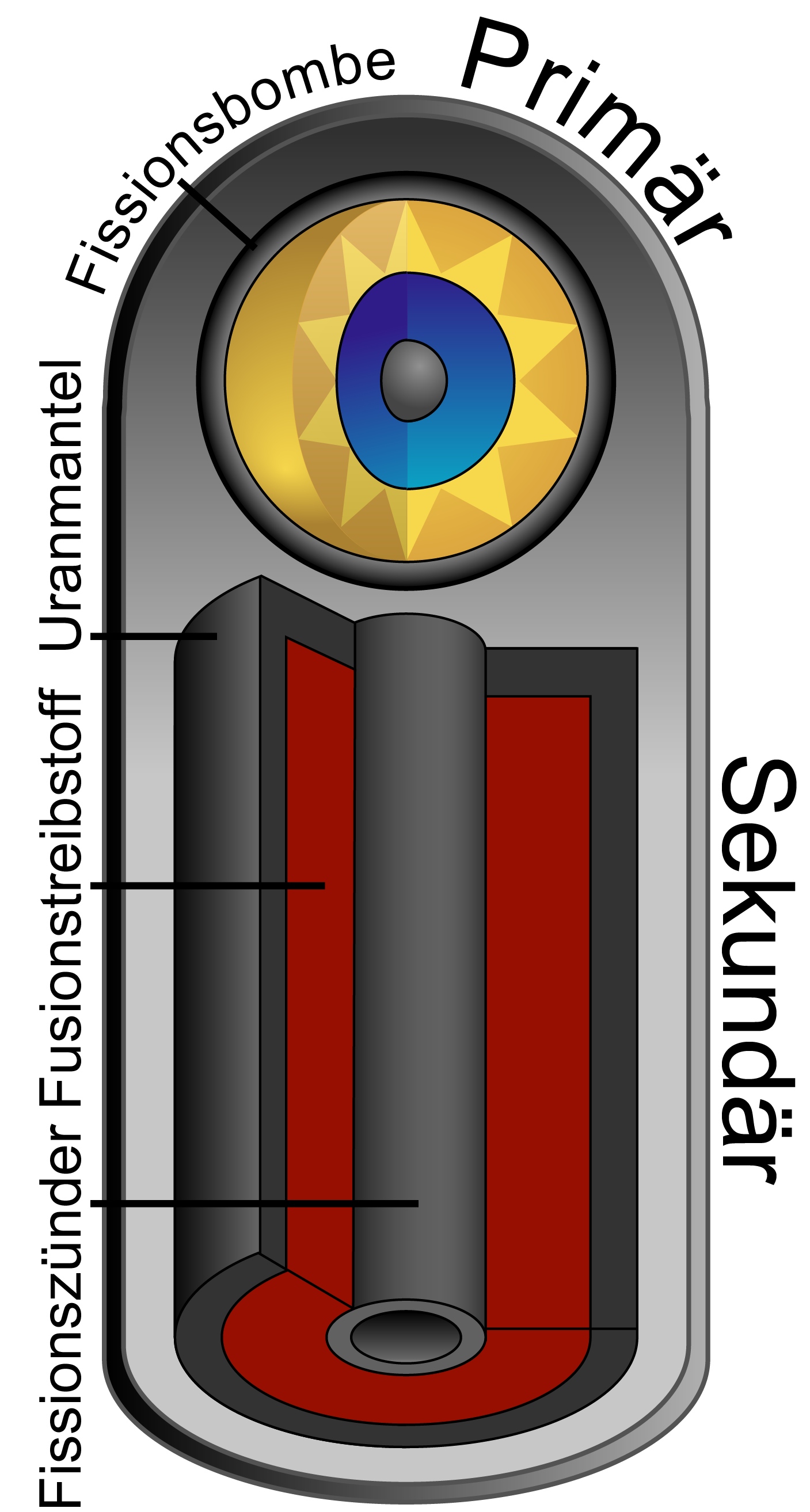 Highly-schematic representation of the main components of a Teller-Ulam design hydrogen bomb.